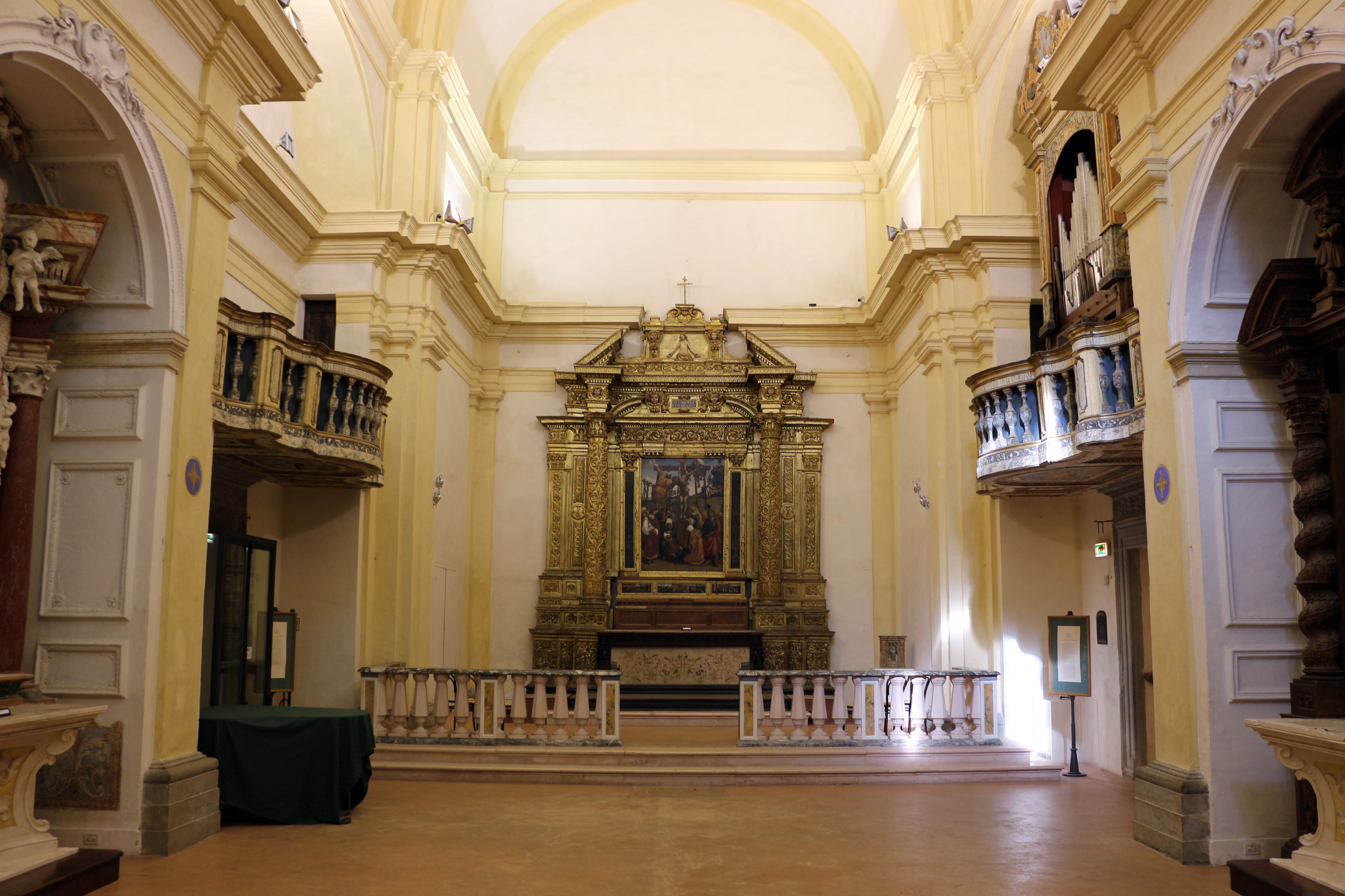 Santa Croce (Umbertide)